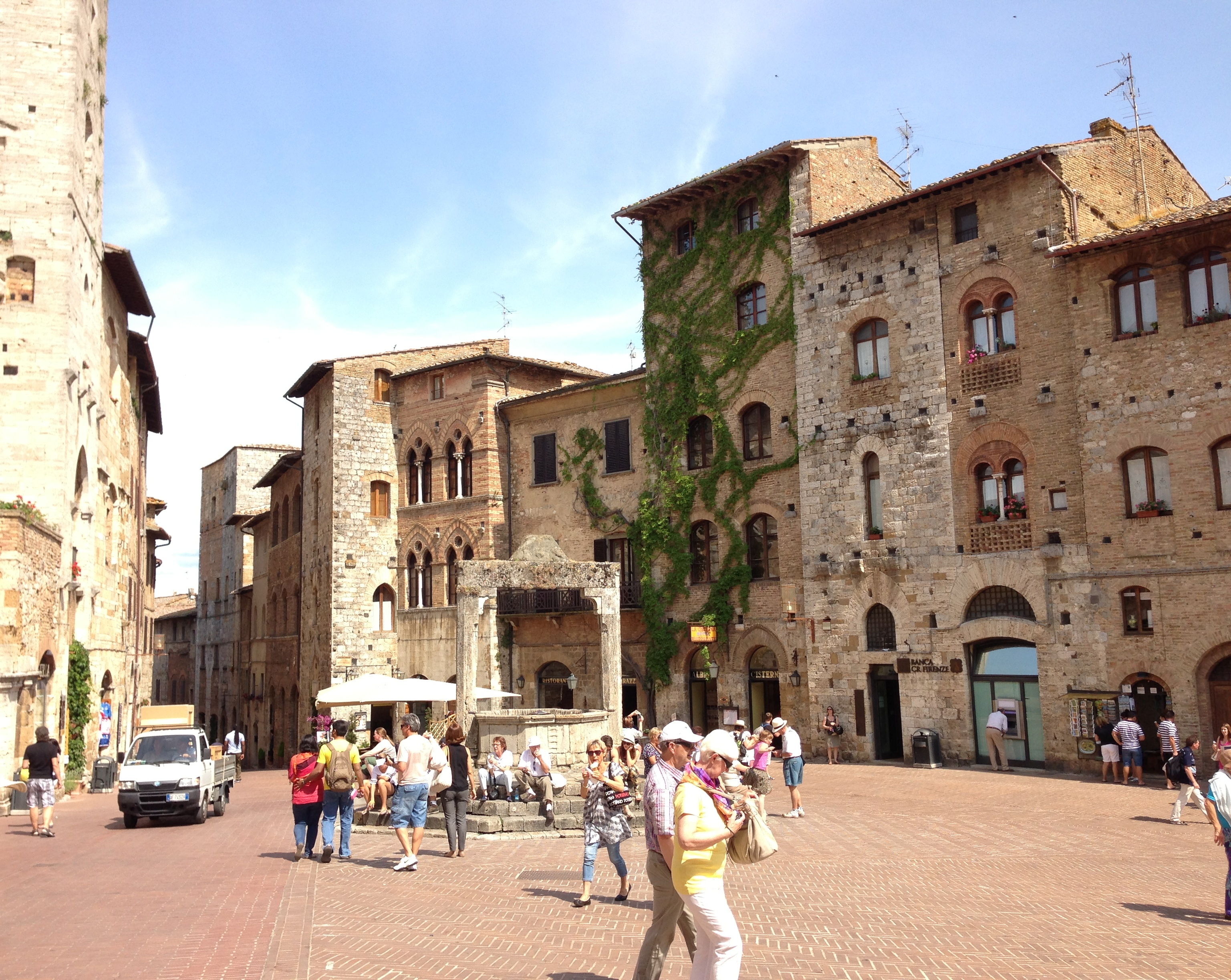 The Piazza della Cisterna in San Gimignano, Italy